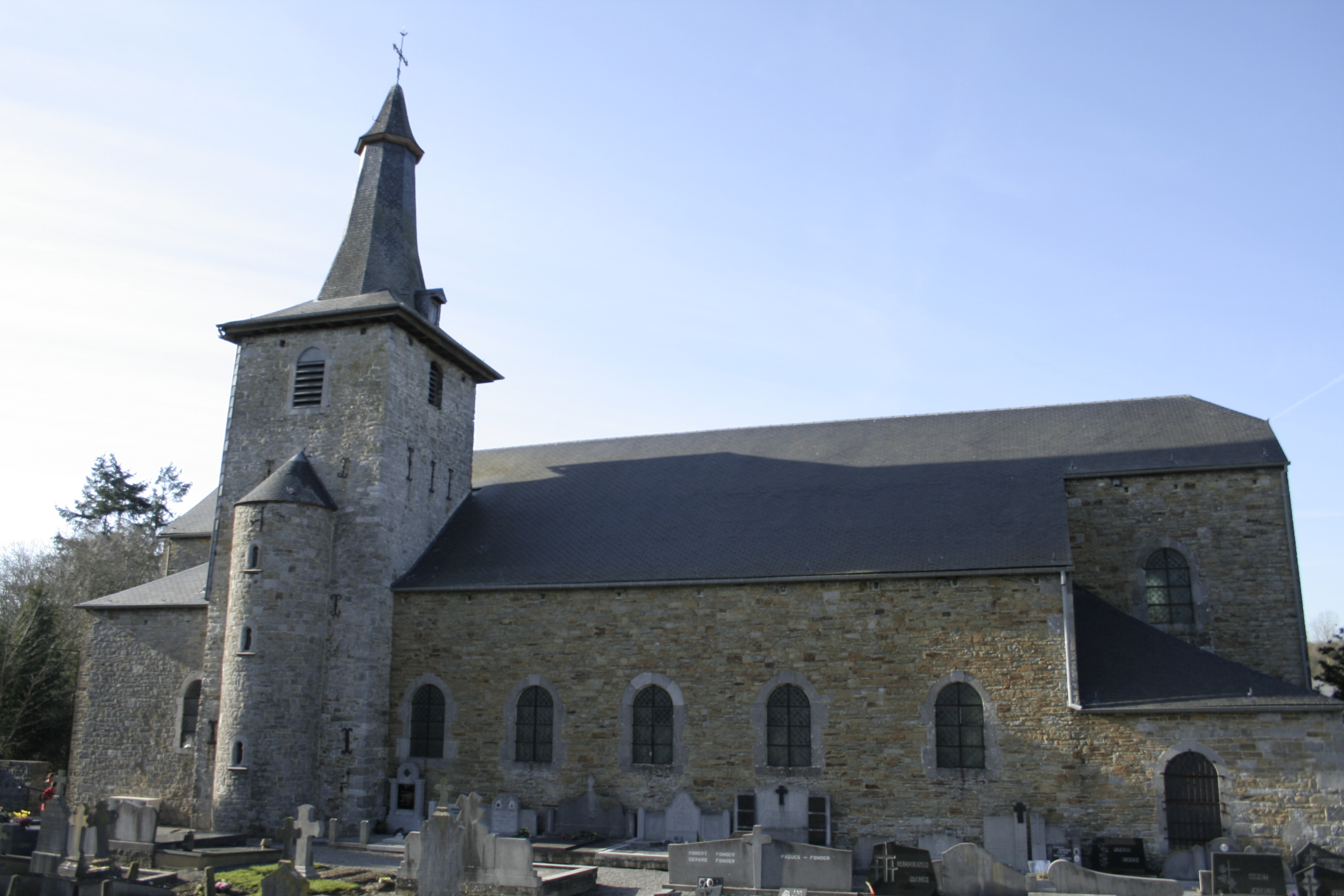 Flostoy (Belgium), the St. Remy church.